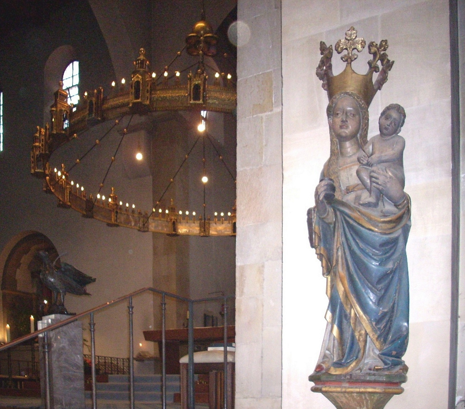 St. Mary's Cathedral, Hildesheim Tintenfassmadonna